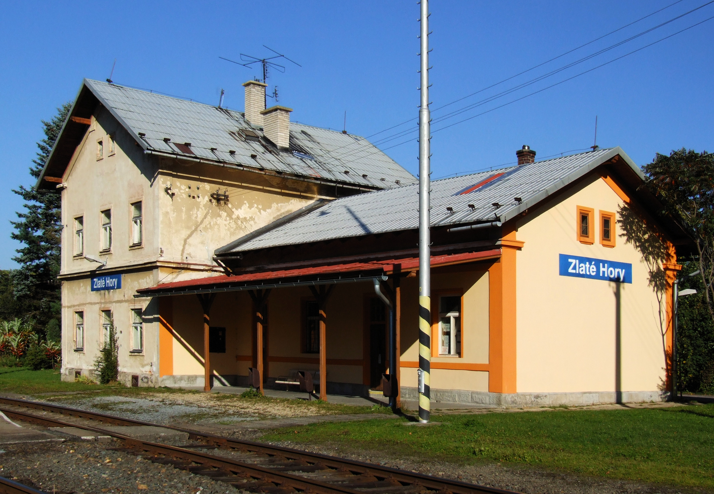 Zlaté Hory (Zuckmantel) - train station